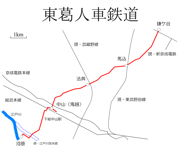 Route map of Tokatsu Jinsha Railway（東葛人車鉄道）.